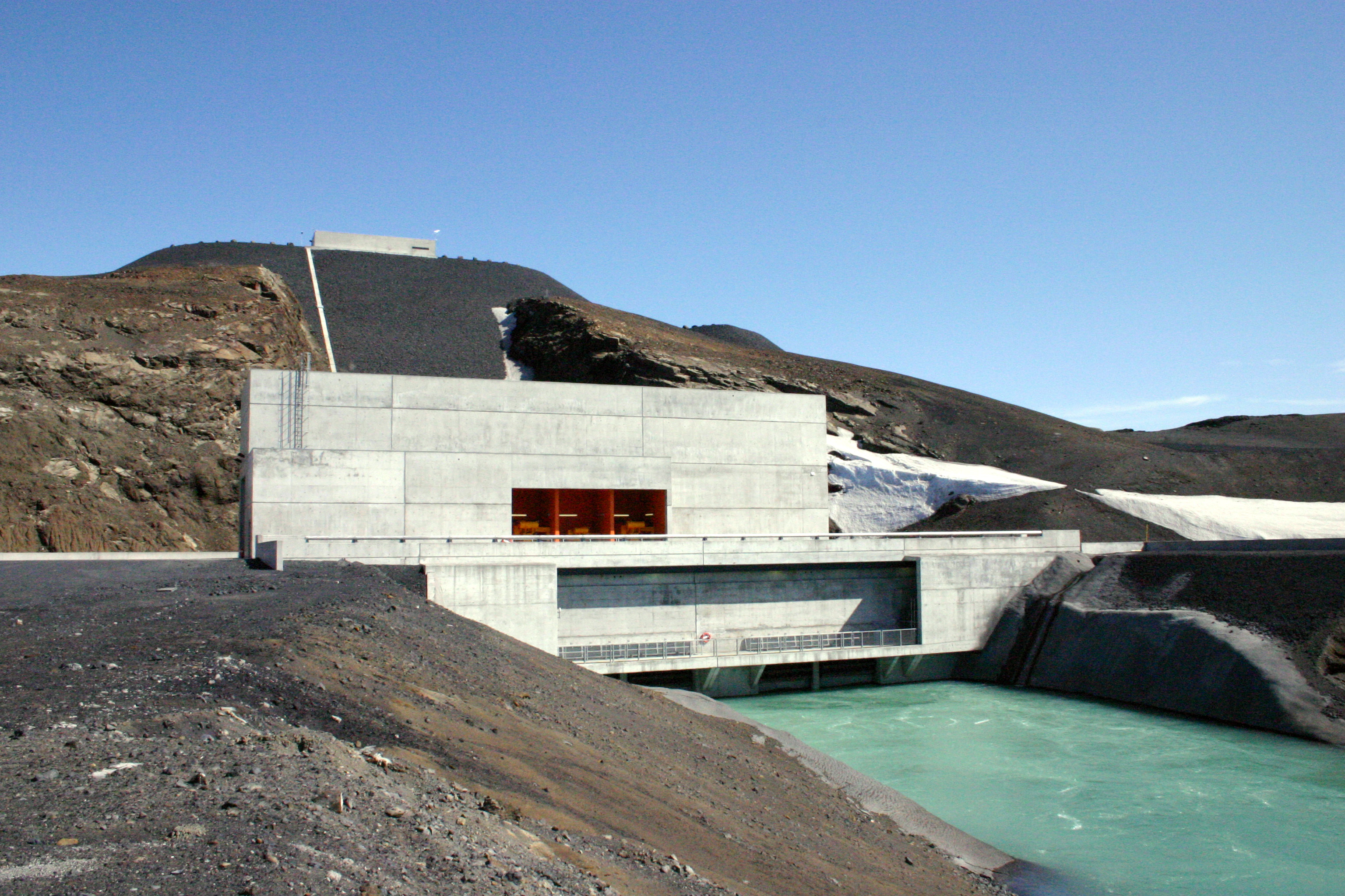 Vatnsfell hydroelectric power station by lake Thorisvatn in Iceland